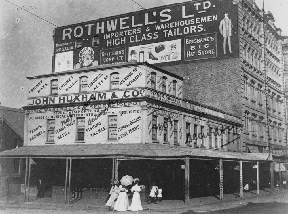 View of the intersection of Edward and Adelaide Streets, Brisbane, ca. 1905. John Huxham & Co. Ltd., a music warehouse and sports depot and Rothwell's Ltd., an importer and warehouse for clothes can be seen.